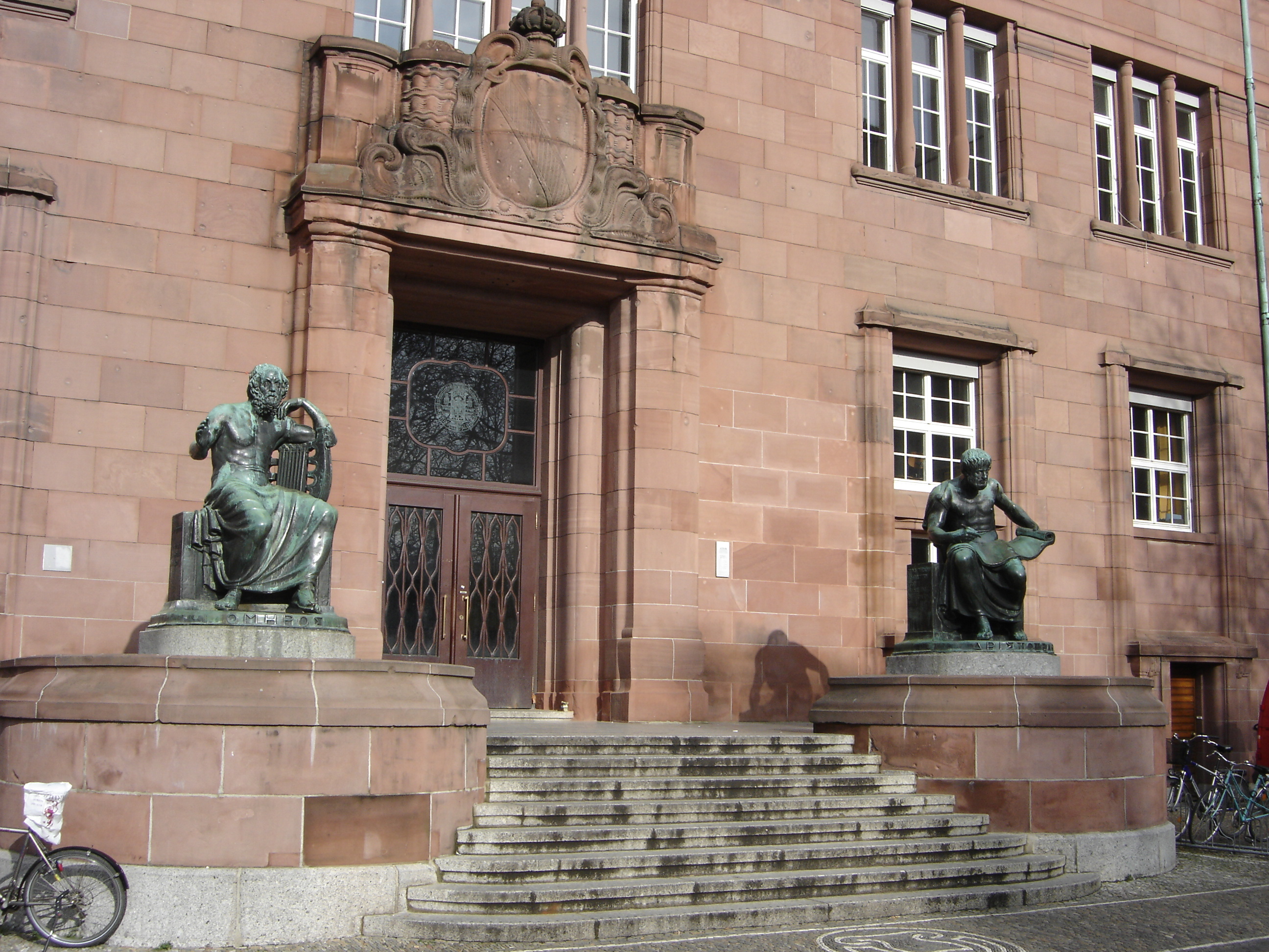 Statues of Homer (left) and Aristotle (right) at the university of Freiburg im Breisgau, Germany.